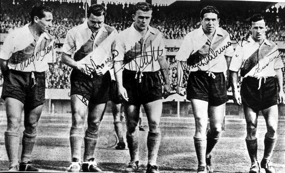 La Maquina 1947. From left: Hugo Reyes, José Manuel Moreno, Alfredo Di Stéfano, Ángel Labruna and Félix Loustau.